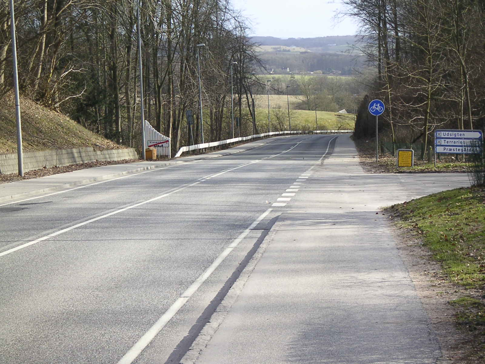 Hill starting i the danish town Vissenbjerg. Called "Vissenbjergbakken".